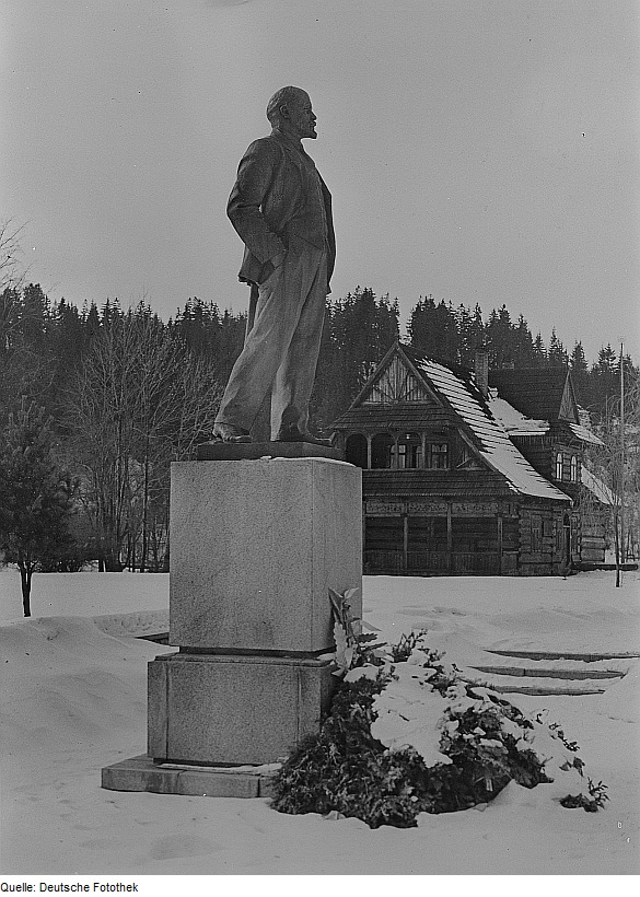 Original image description from the Deutsche Fotothek Poronin. Leninstatue